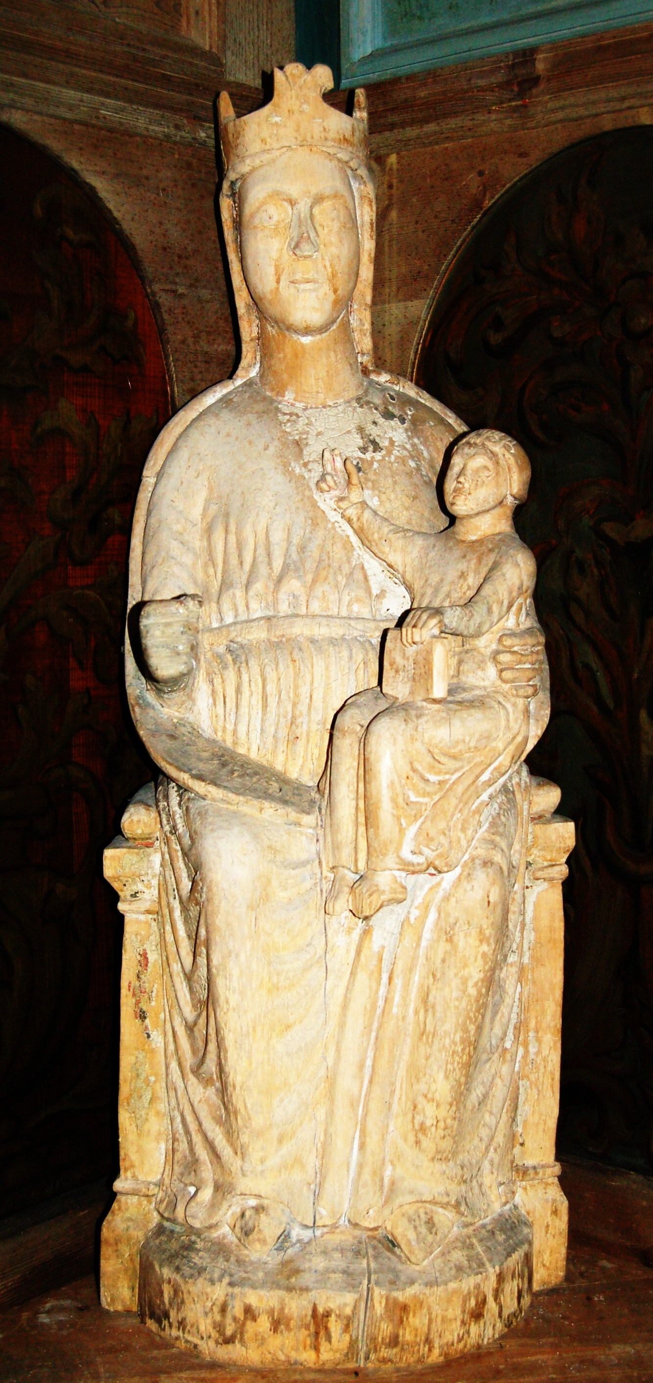 Madonna Hedrum church, Larvik, Norway